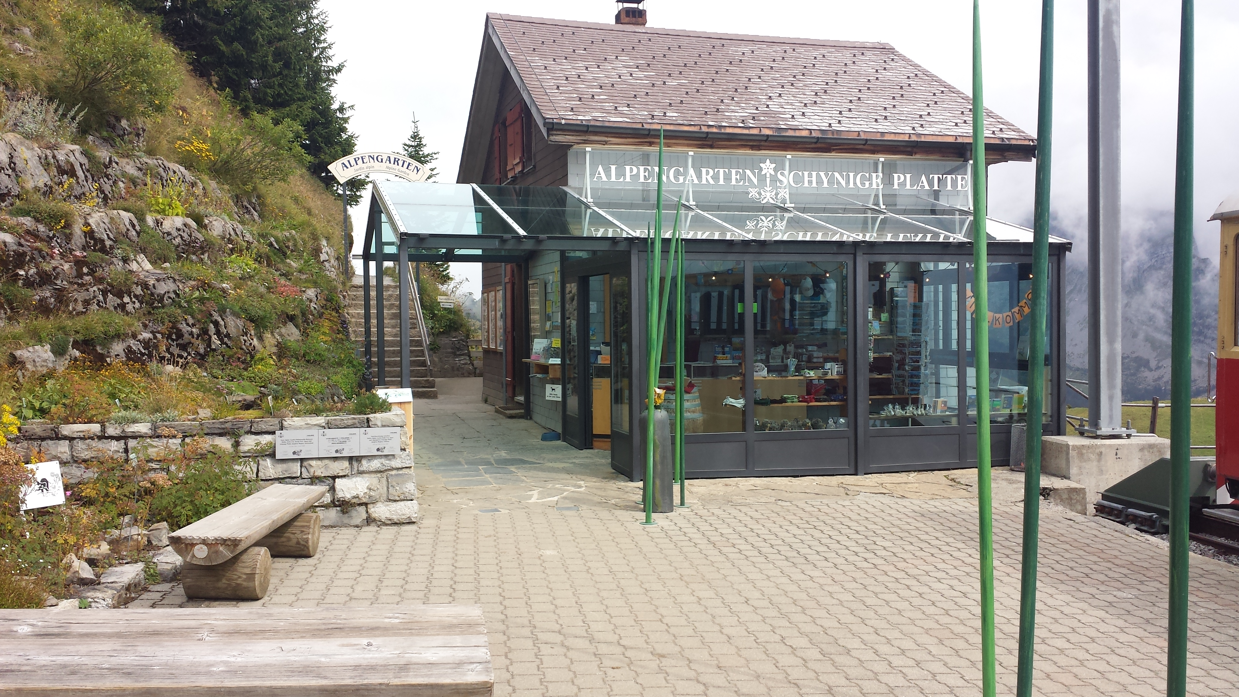 The entrance to the Schynige Platte Alpine Garden, from the platform of the Schynige Platte railway station.